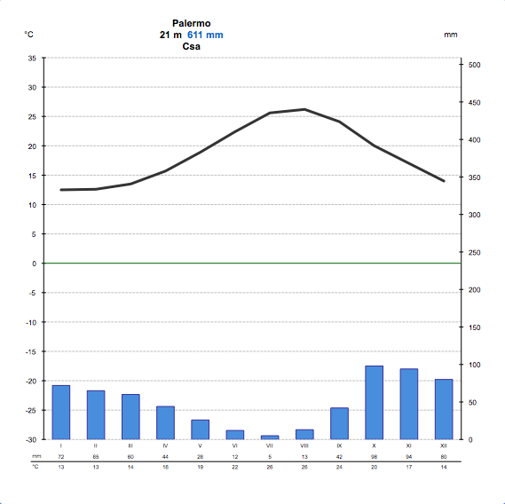 Palermo kliimadiagramm